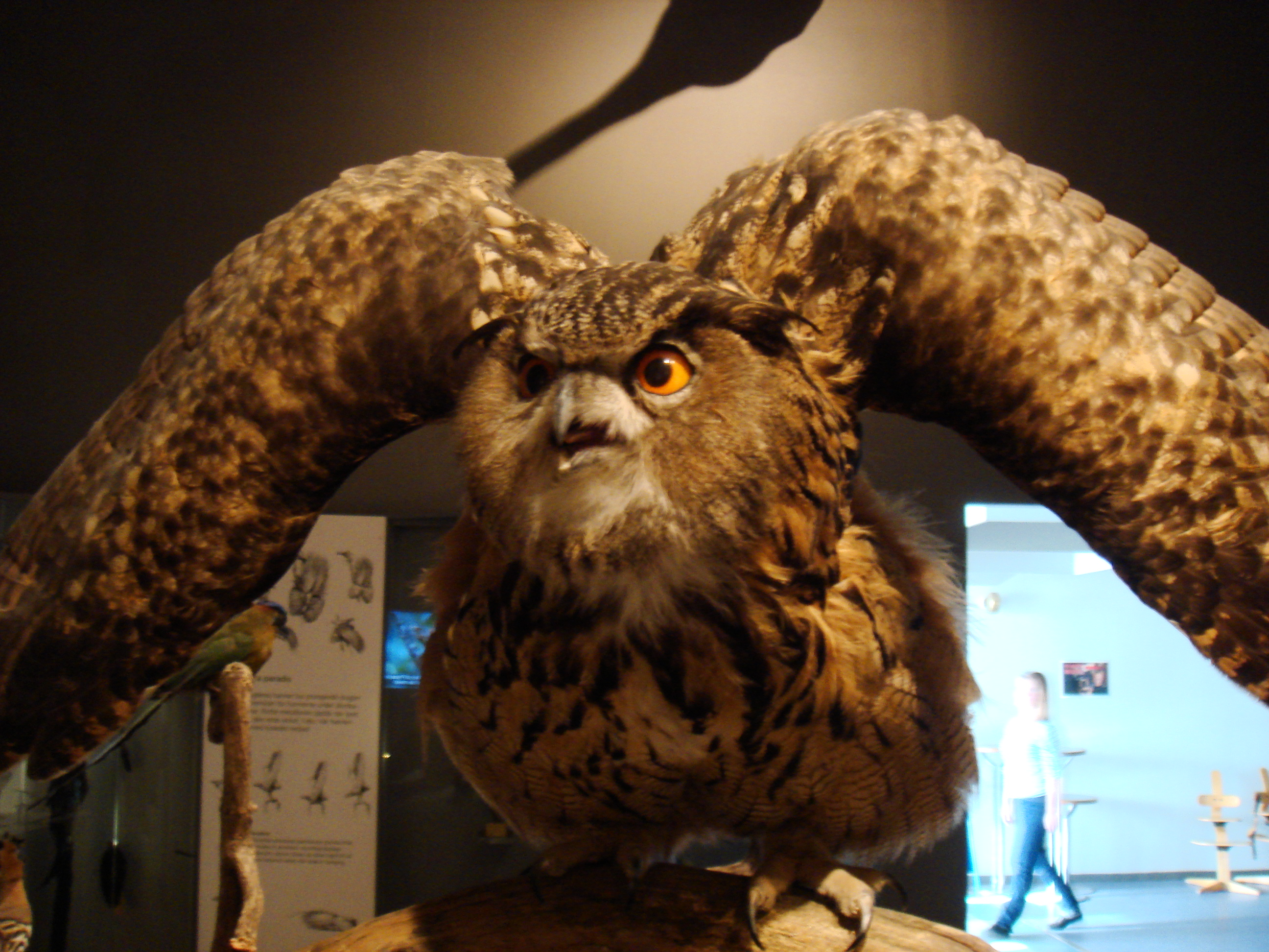 Zoological Museum, Copenhagen. Picture by Stefano Bolognini.